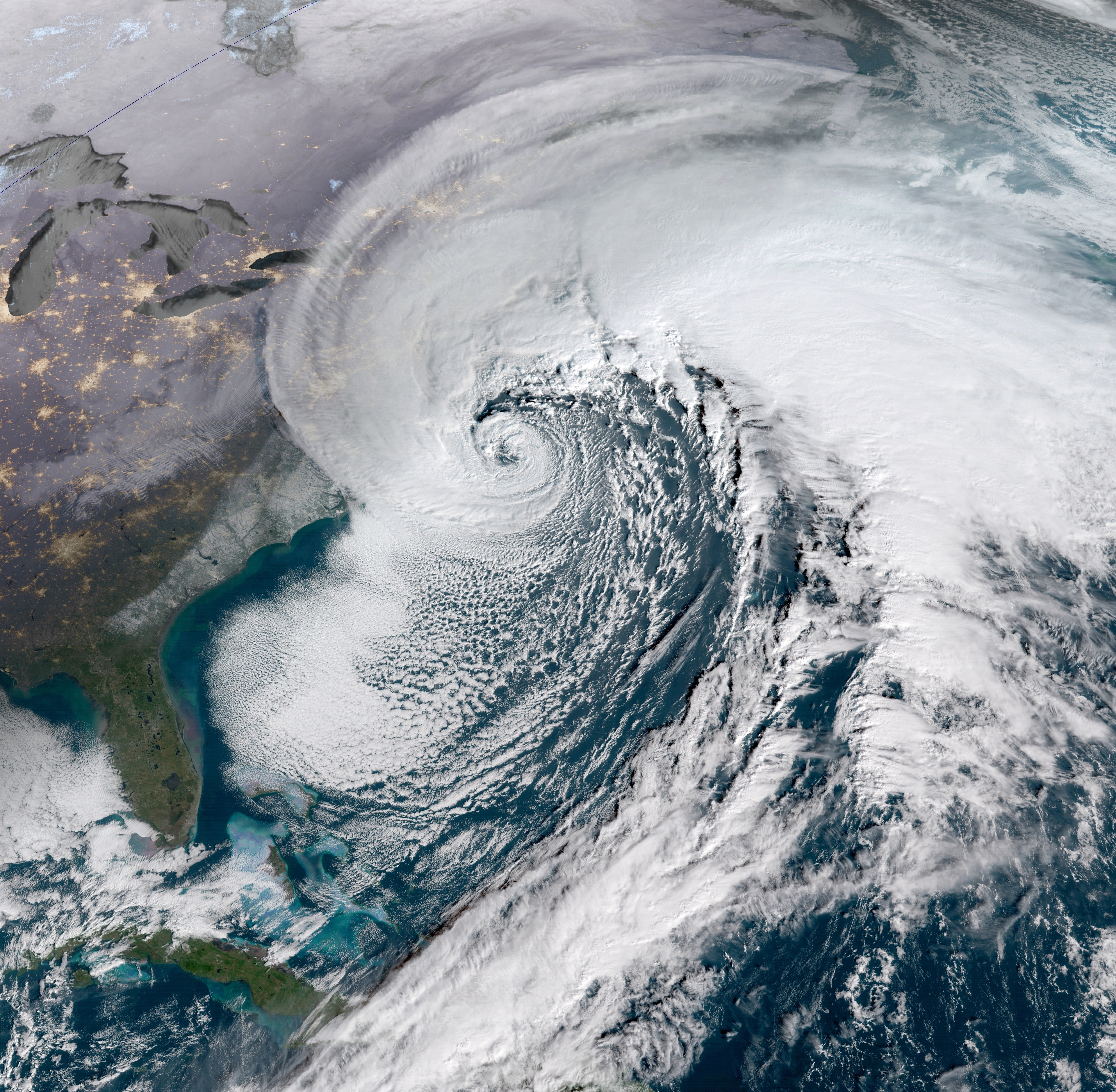 GOES-16 ABI GeoColor image of the Early January 2018 nor'easter maturing off the east coast of the United States.